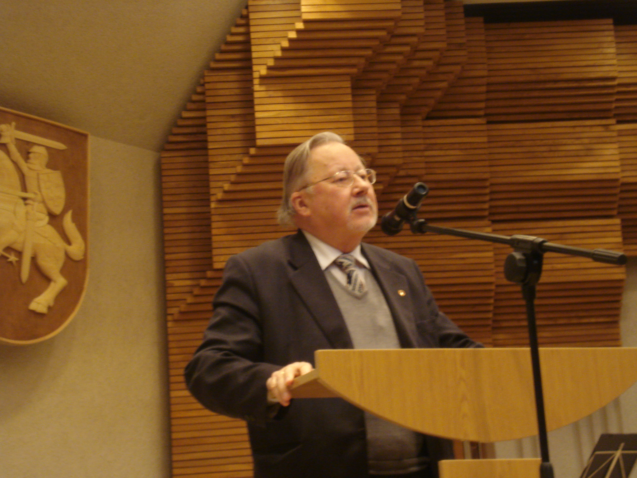 Vytautas Landsbergis